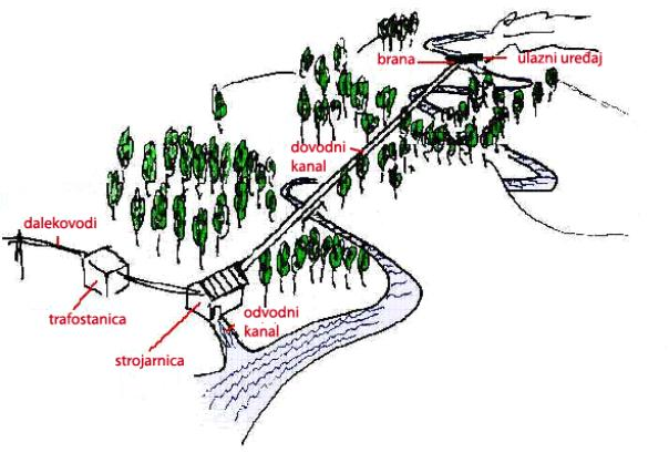 Information picture of small hydropowerplant